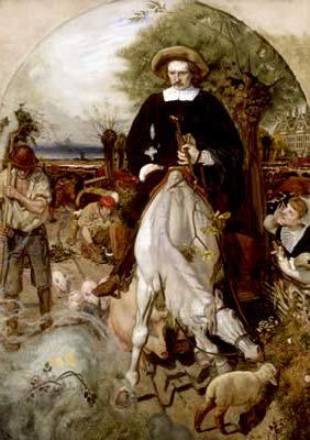 St. Ives, AD 1630. Cromwell on his farm. Historicism painting by Ford Madox Brown (1821–1893), a Pre-Raphaelite artist.